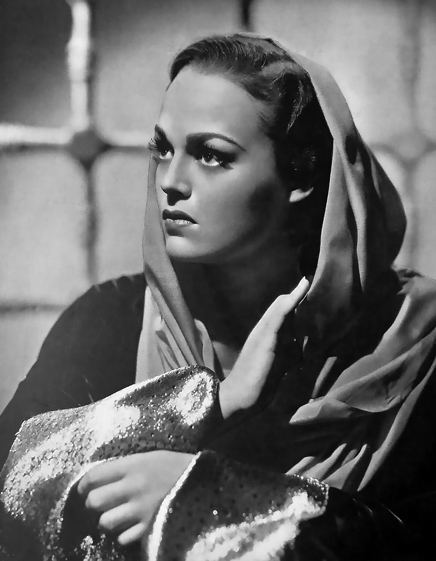 Canadian-born American actress Katherine DeMille on the cover of Cinegraf magazine (September 1936).